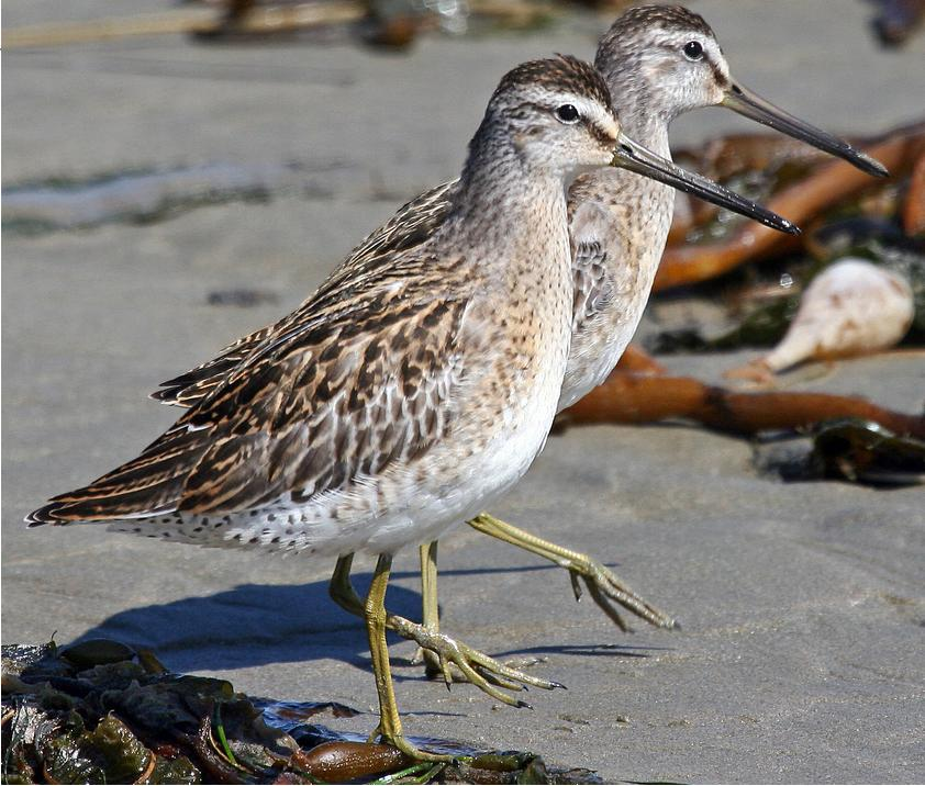 Short-billed Dowitcher